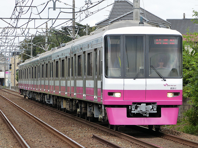 Shin-Keisei 8900 series EMU set 8911 approaching Minoridai Station on a test run following modifications including reforming as a 6-car set and repainting in the new Shin-Keisei pink corporate livery